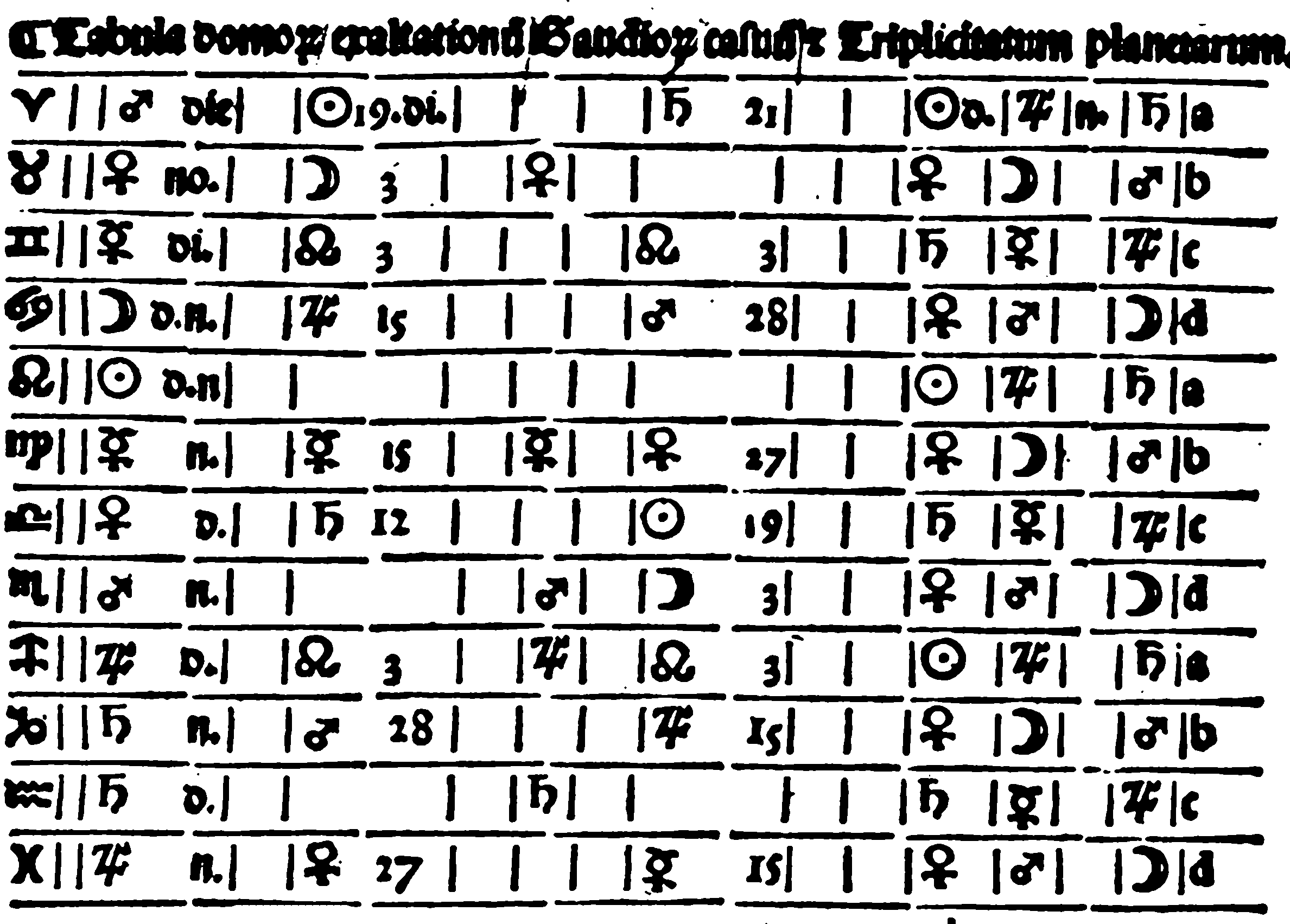 Table of houses (i.e. sign rulerships), exaltations, degrees of joy, and triplicity rulerships of the planets.